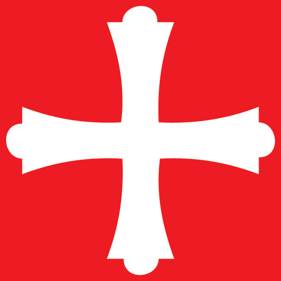 Flag of Vrnjacka Banja.